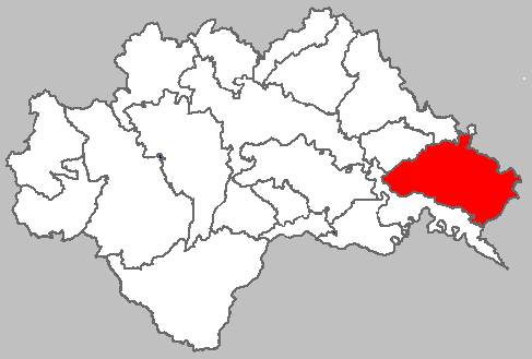 Position of city Novska inside Sisak-Moslavina County